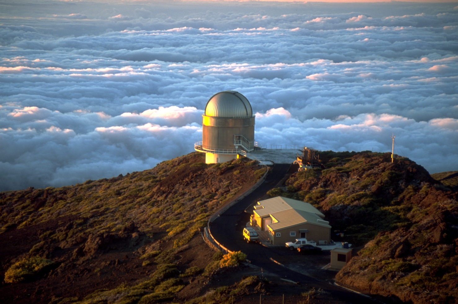 The Nordic Optical Telescope (NOT) telescope at Roque de los Muchachos Observatory in June 2001. The height (2396 m) of the observatory above the Atlantic Ocean ensures that it is almost always above the clouds.